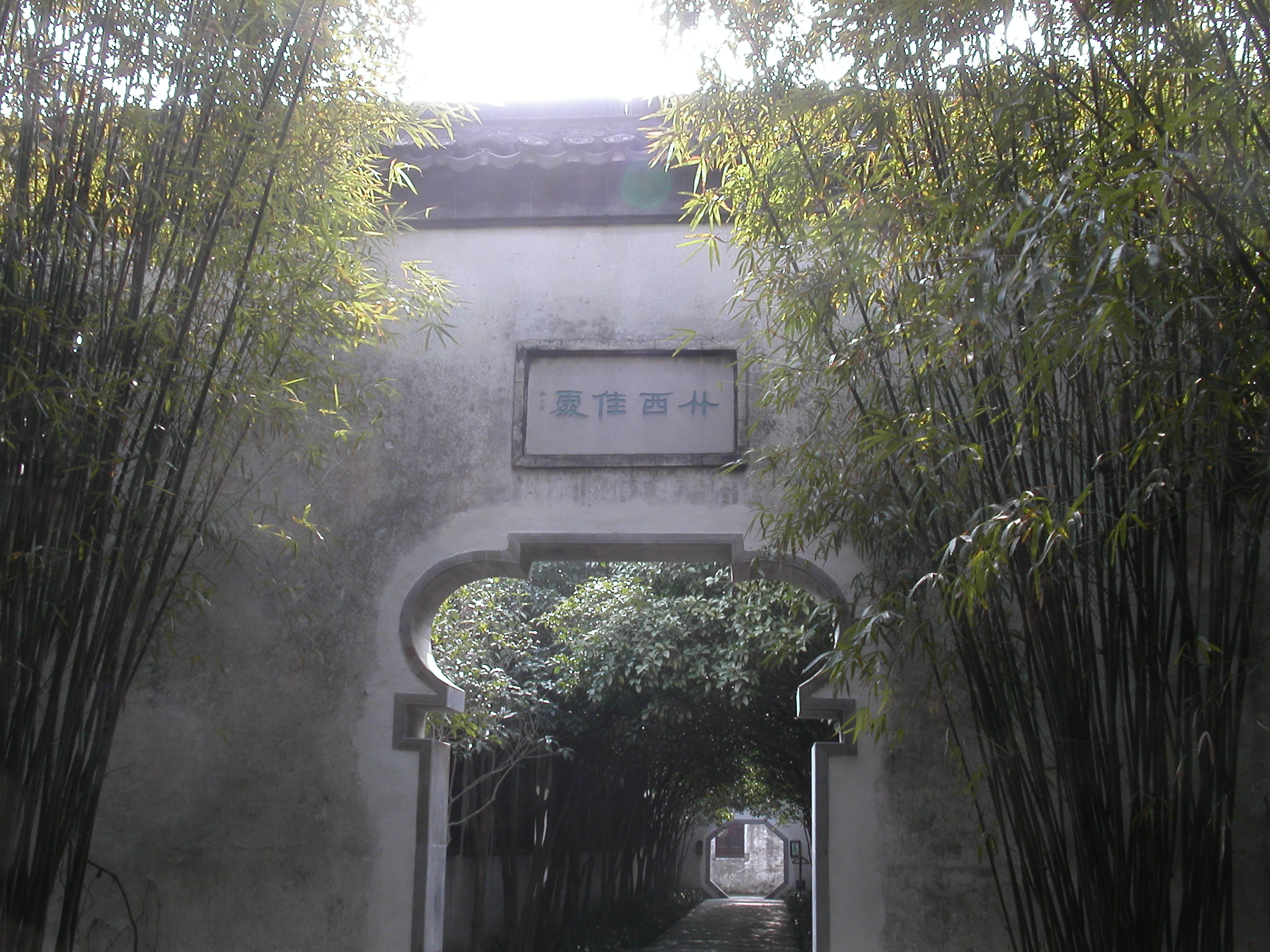 Bamboo Garden in Yangzhou, China. 扬州个园竹西佳处